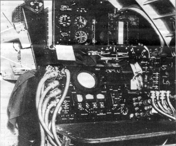 USAF WWII photograph of a Mickey Set, probably installed in a B17